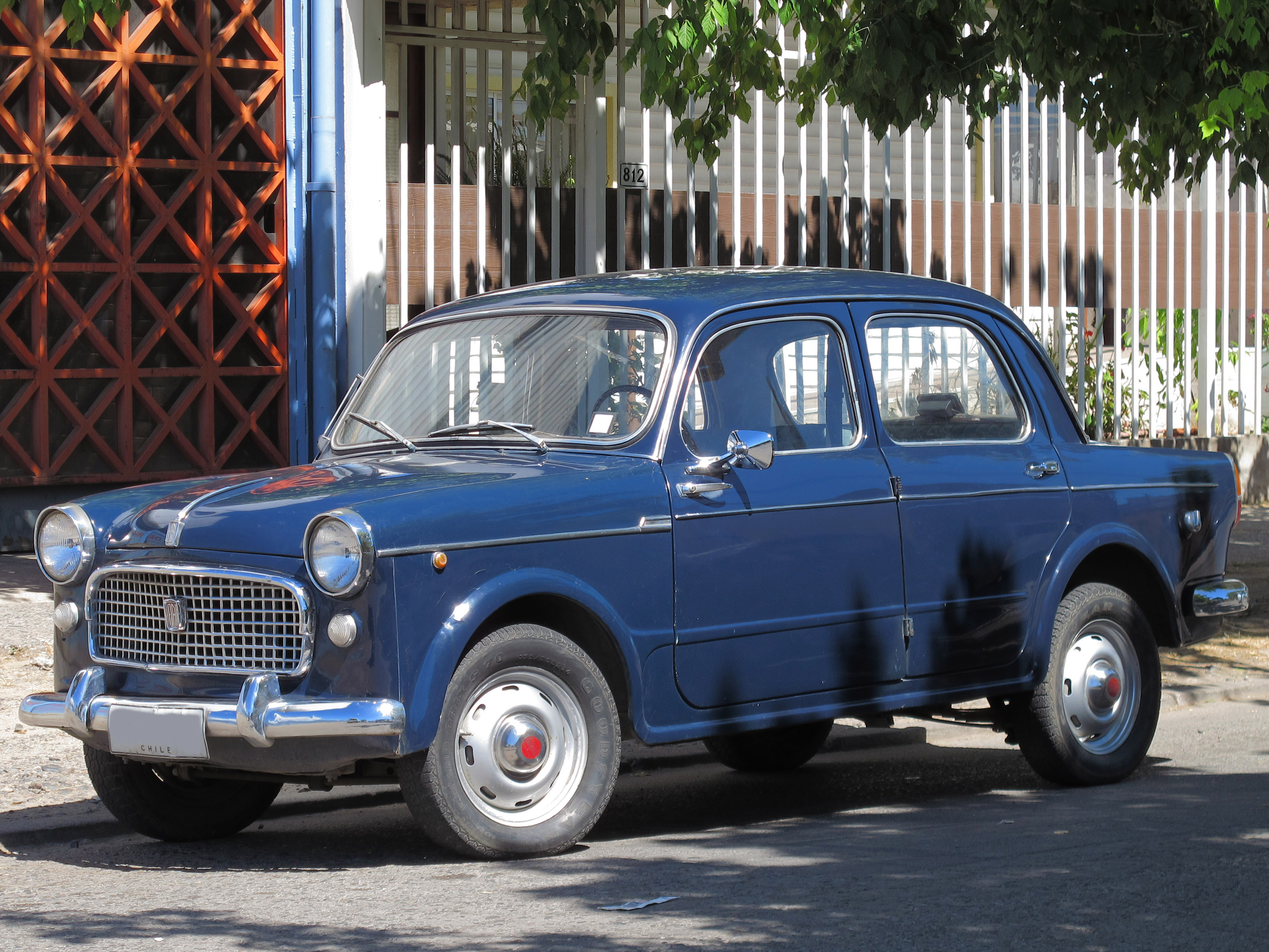 Fiat 1100 1960